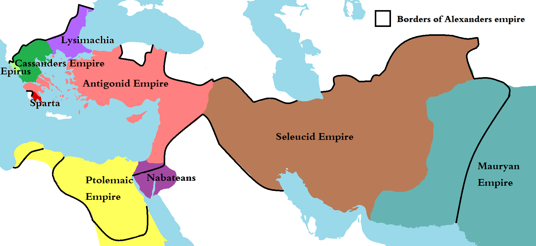 image showing the borders of alexanders empire in black lines, and the empires the succeeded his territory (coloured)